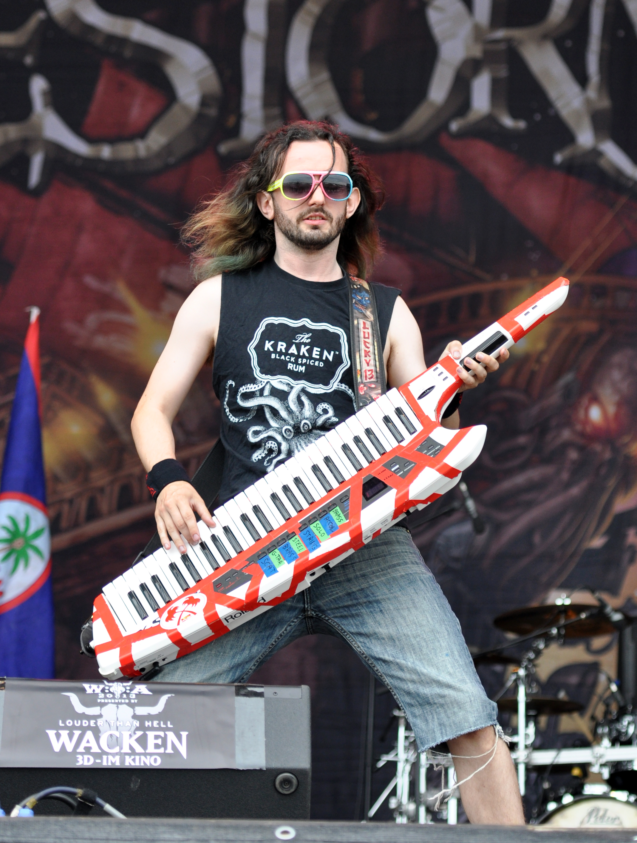 Alestorm at Wacken Open Air 2013